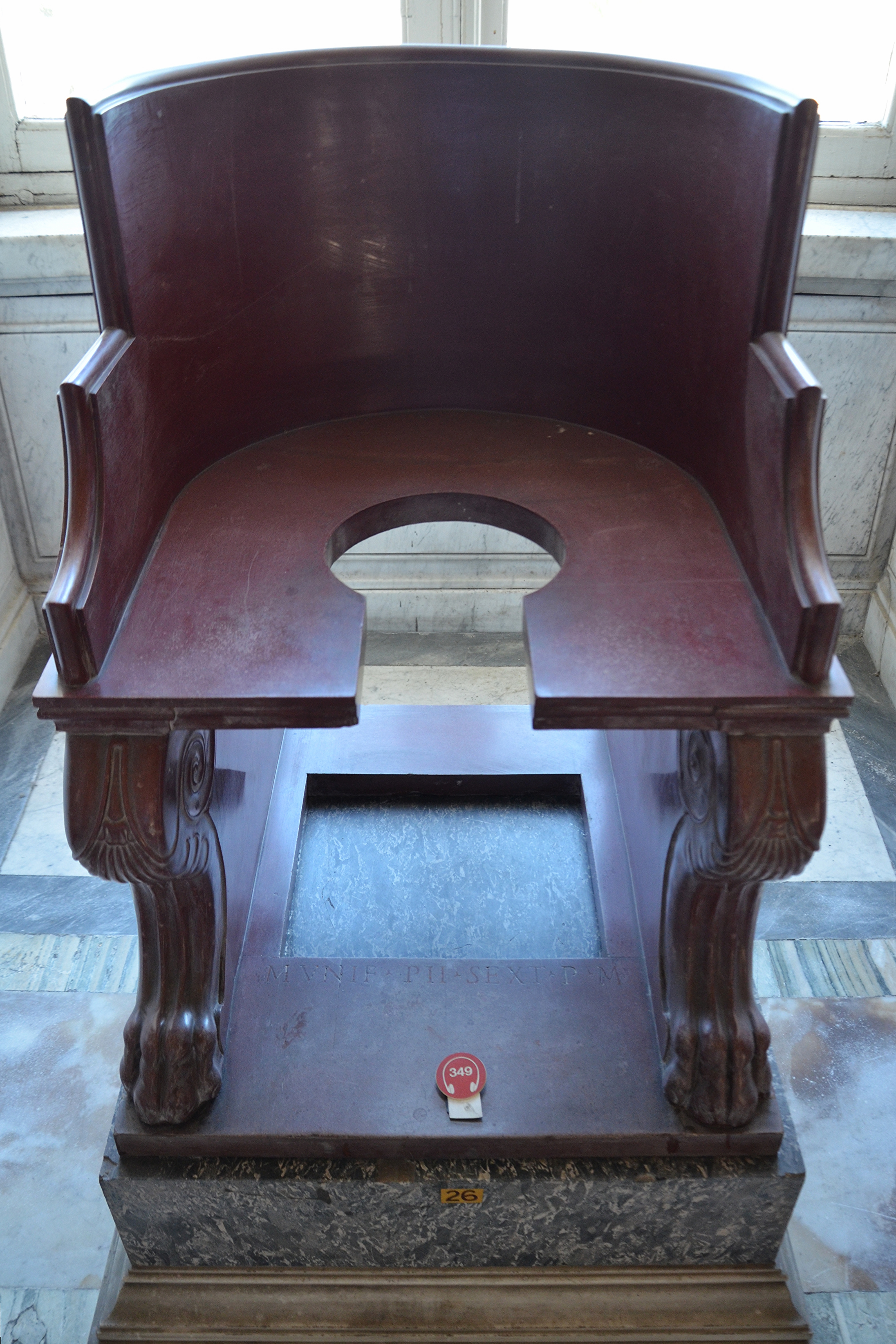 Roman toilet seat in rosso antico (red marble from southern Greece), formerly in the Lateran Palace, Vatican Museums The seat is pierced with a circular hole 21.4 cm in diameter, with a nearly square slot (13.2 x 13.7 cm) extending to the front edge. The seat is supported by two parallel lateral sup-ports 48 cm high decorated with volutes at the top front and back; the front of the supports are shaped like lions’ legs, ending in a claw, and there is a smaller volute at the rear base. The sides of the sup-ports are decorated with a stylized relief floral design.